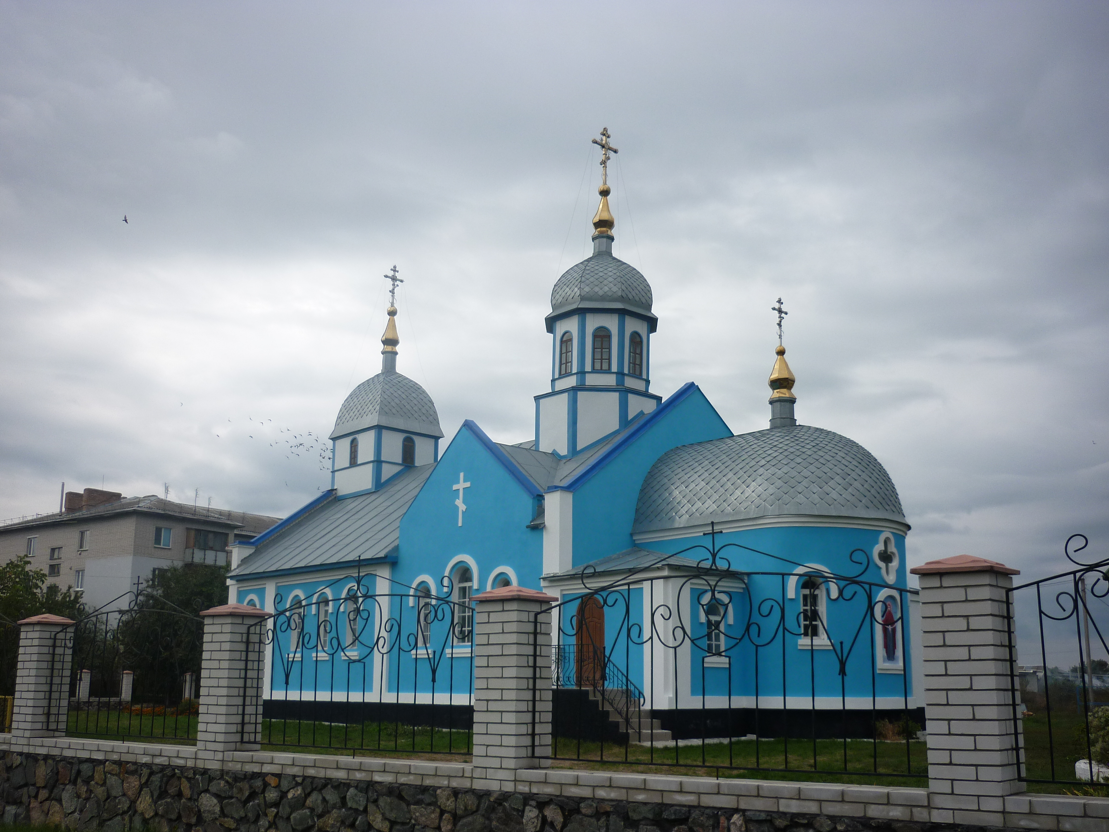 Saint-Pokrova church